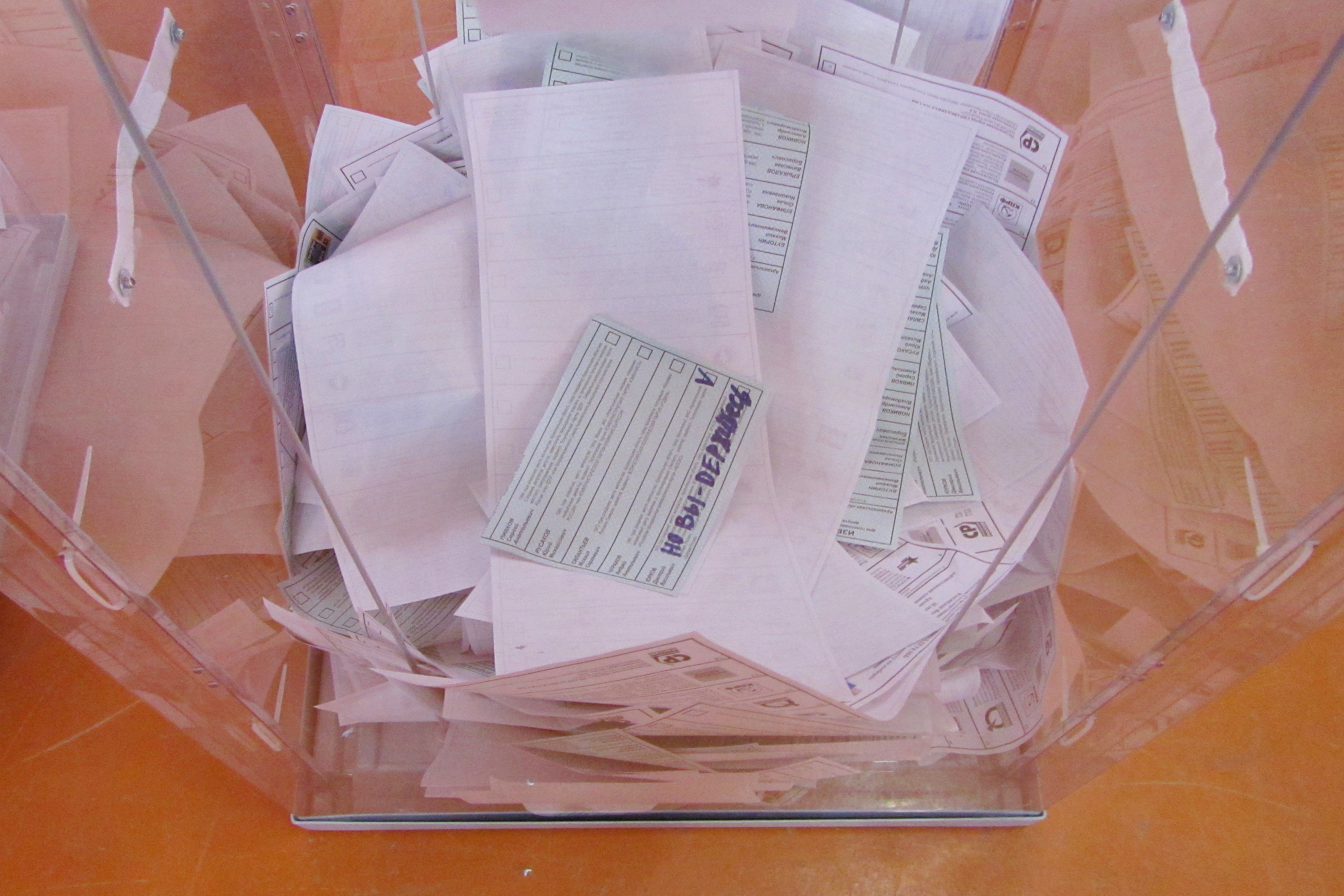 Russian legislative election, 2016